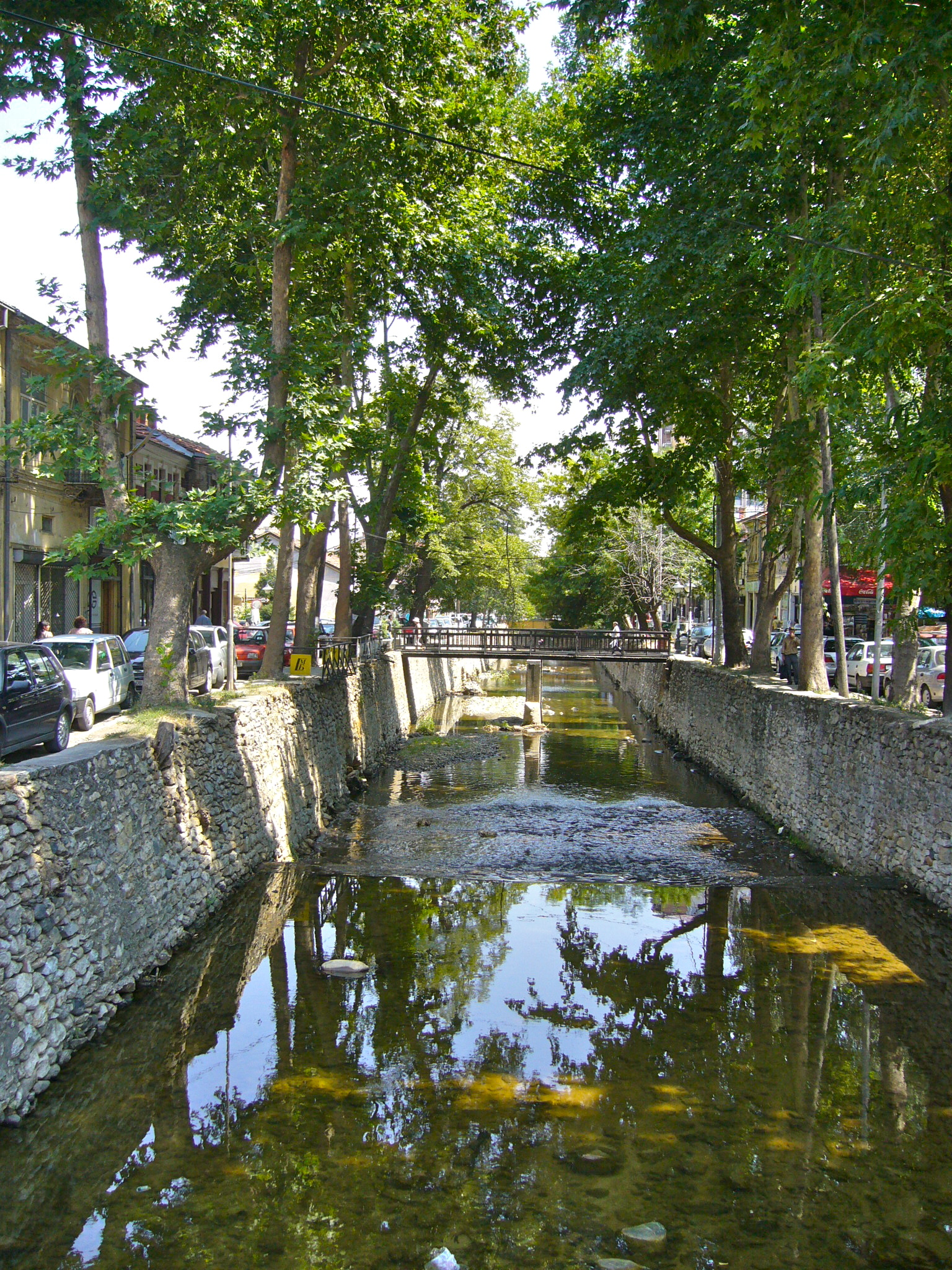 The river Dragor in Bitola